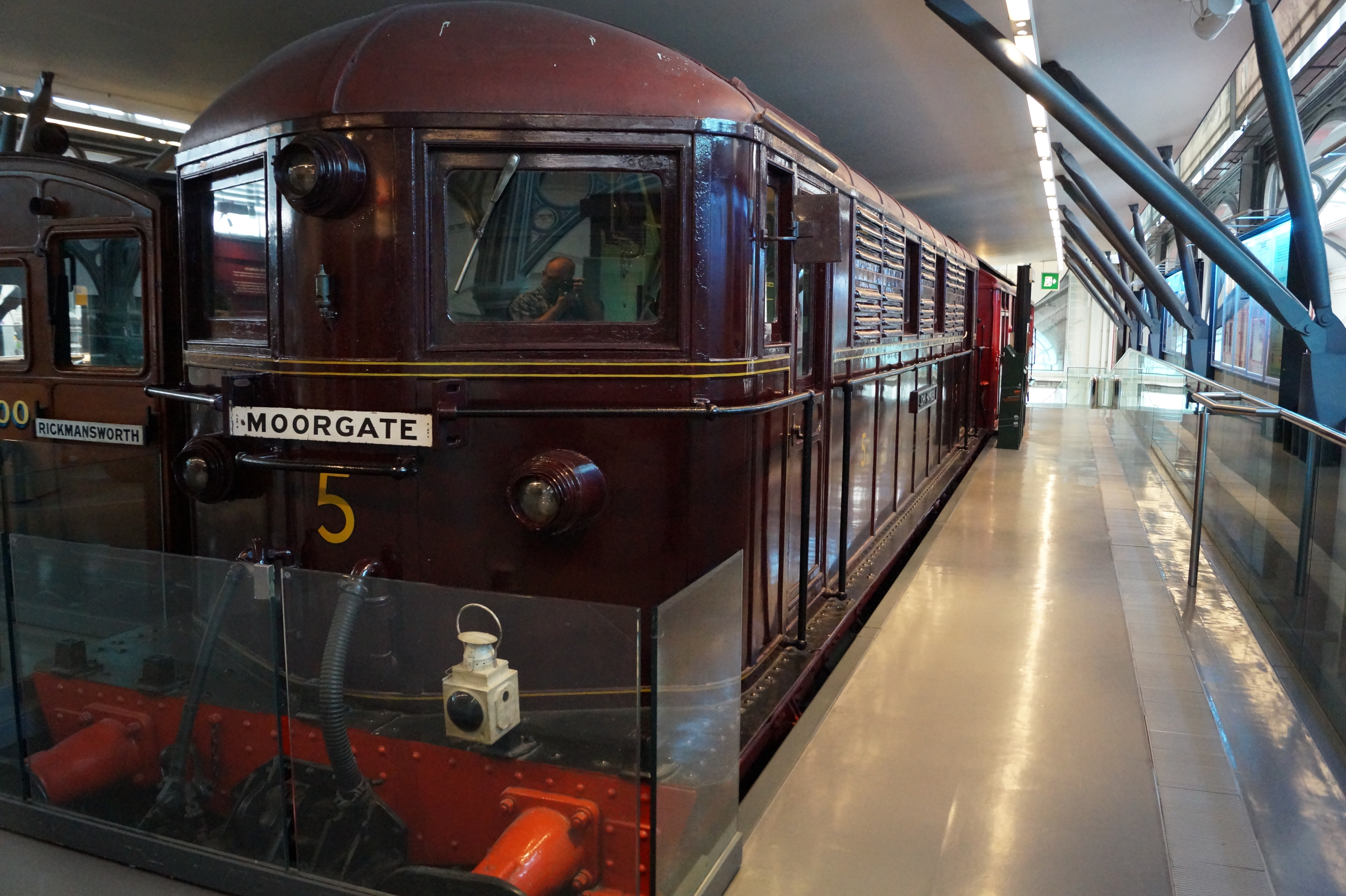 Metropolitan Railway electric No 5 John Hampden at London Transport Museum, Covent Garden.